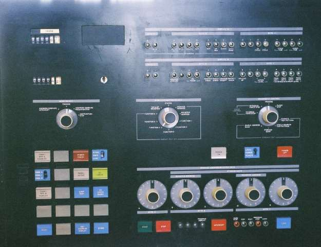 Roger D Moore (wiki rdmoore6) was the photographer. Photo was taken with a Nikon F401 on a tripod using 100speed Fujifilm Superia Reala. Aperture for f22; shutter speed was automatic around quarter second. Indirect sunlight from almost behind the camera was the illumination. Location was in my bedroom in Etobicoke. Date was early Decmeber 2005.